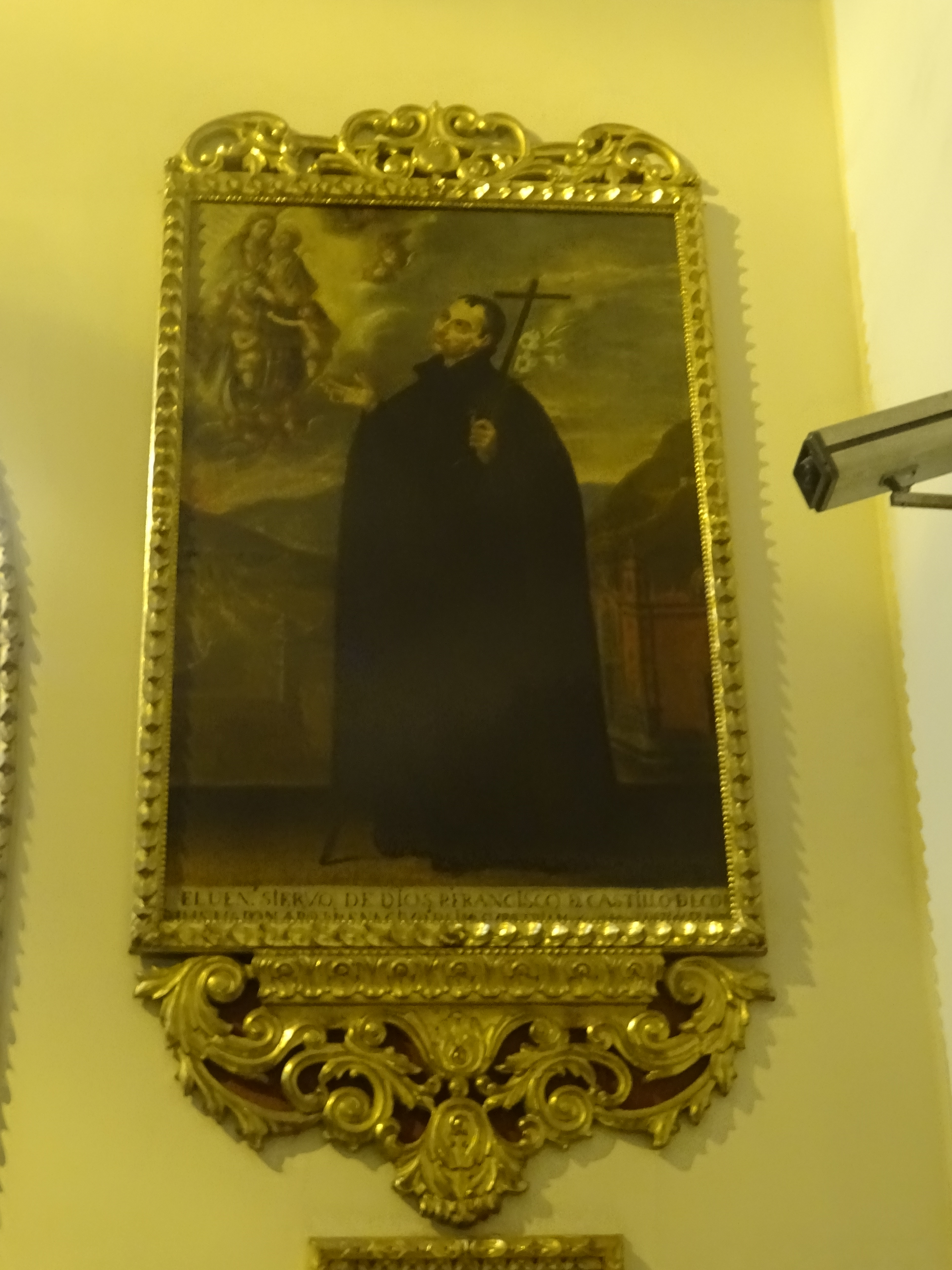 Jesuit Francisco del Castillo (painting in Saint Peter Church, Lima-Peru).